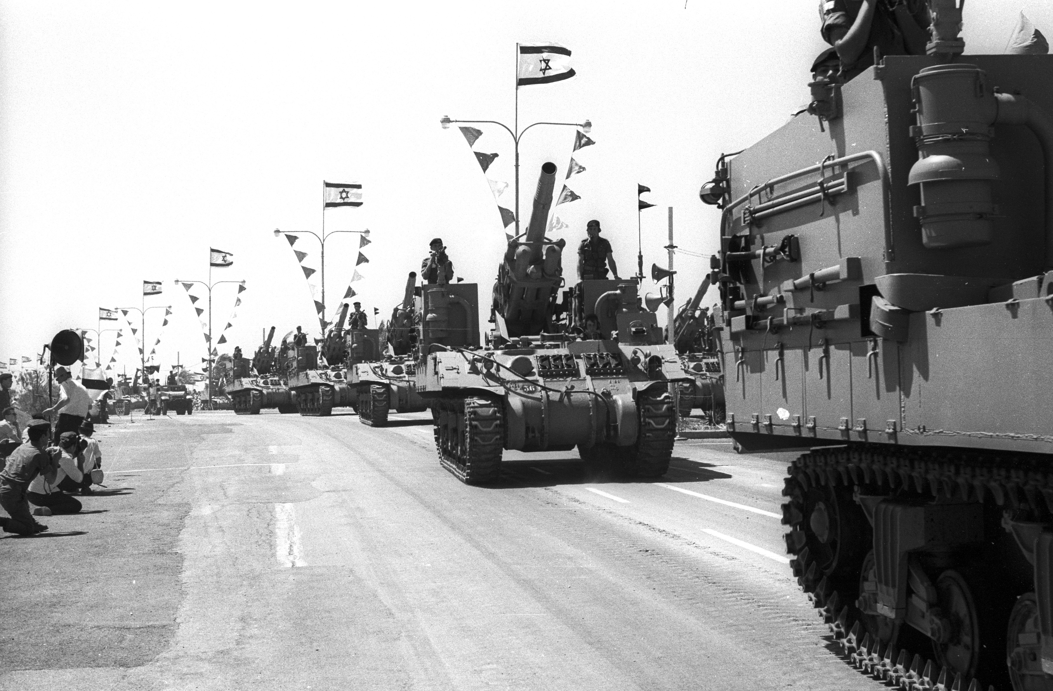 The 18th Independence Day parade; Photo shows: A 155mm hovitzer cannon passing by.